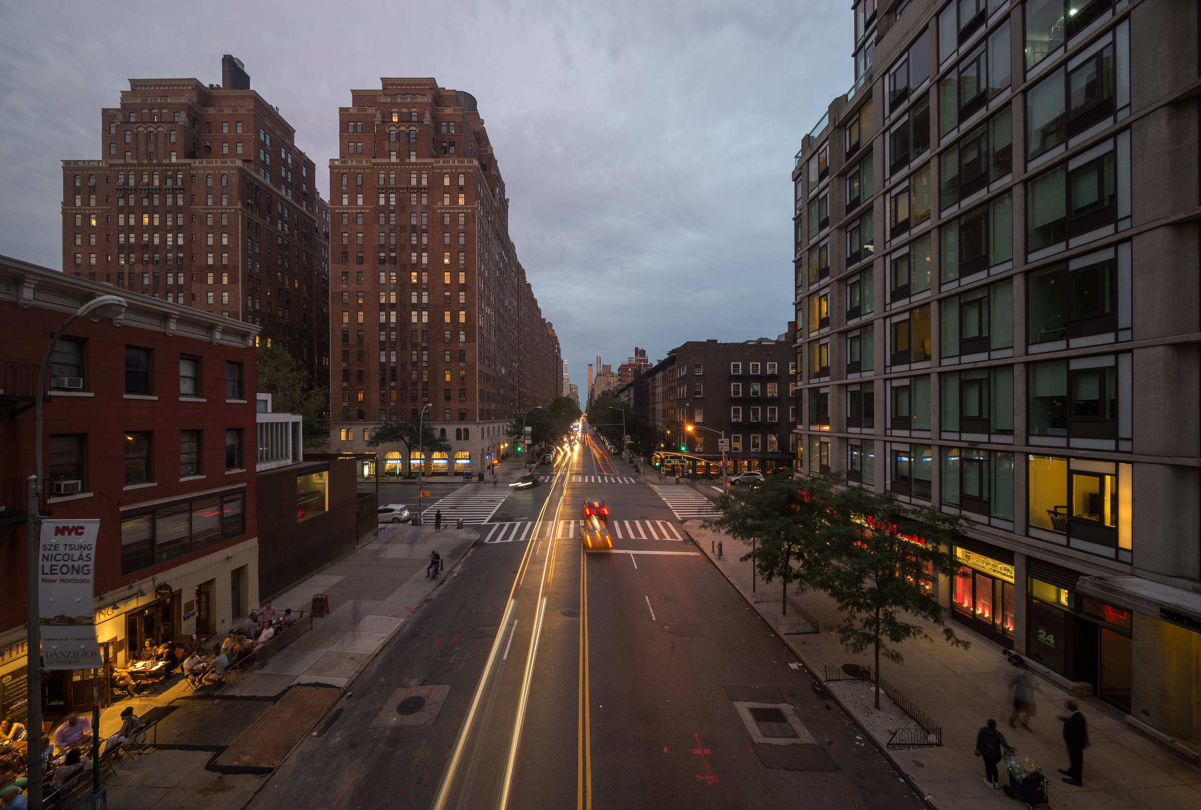 The intersection av 10th Aveny and West 23rd Street. To the left, London Terrace. View from the High line.